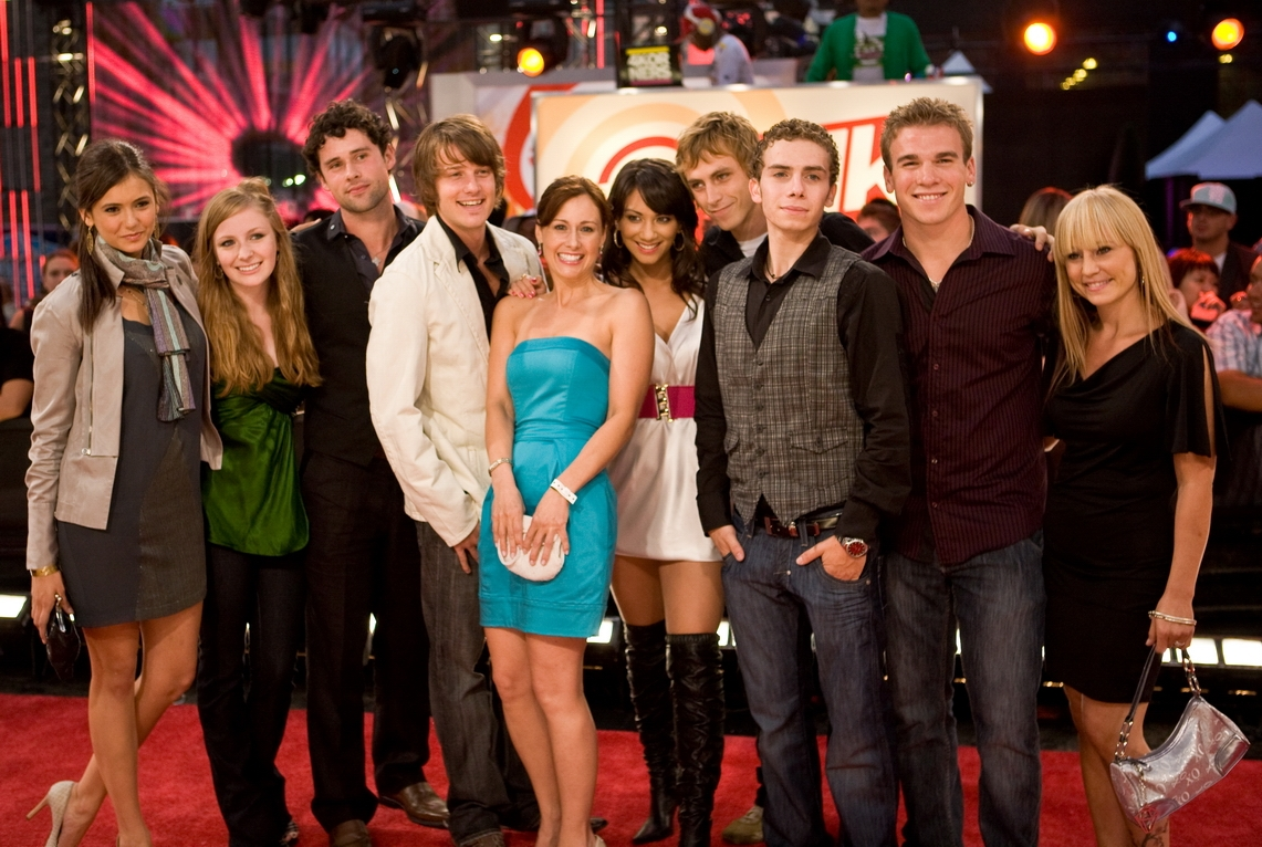 The cast of Degrassi: The Next Generation and Instant Star at the eTalk Festival Party, during the Toronto International Film Festival. Left to right: Nina Dobrev, Charlotte Arnold, Kristopher Turner, Evan Williams, Stacie Mistysyn, Cory Lee, Tyler Kyte, Marc Donato, Shane Kippel, Amanda Stepto